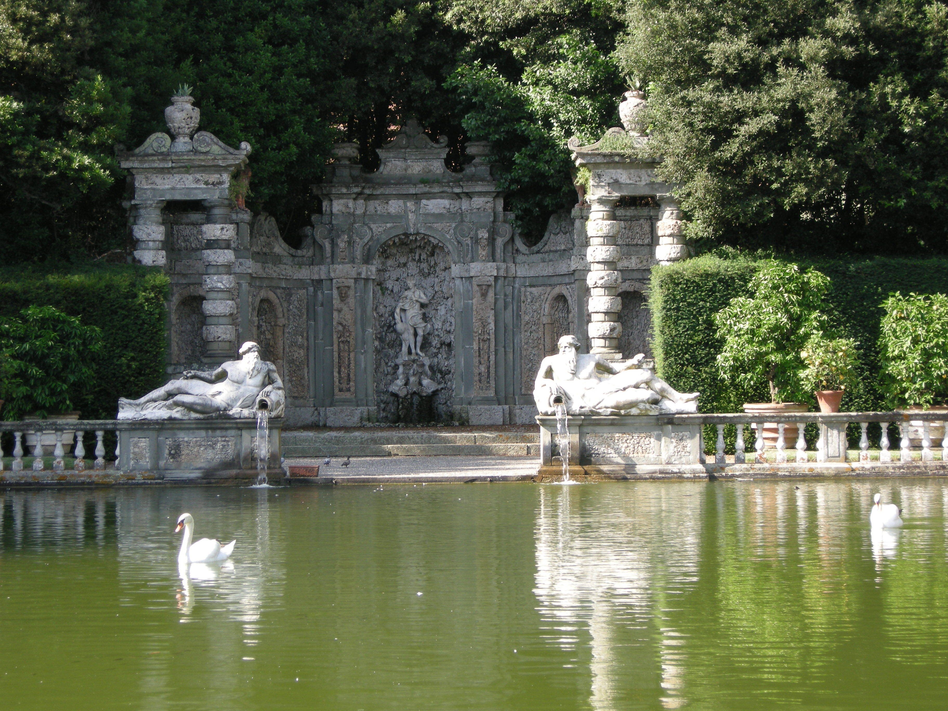 Centuries old Ornamental pool with stone balustrade and sculpted fountain statues. In the Italian Renaissance gardens of Villa Reale di Marlia — in the Province of Lucca, Tuscany, Italy.